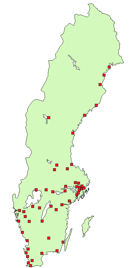 Map with the 50 largest urban areas (tätorter) in Sweden marked (2005).